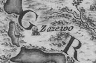 Zazhevichy (Belarus) on the map of Rizzt Dzanoni, 1772 Зажэвічы (Салігорскі раён Менскай вобласьці) на мапе Рыцы-Дзяноні, 1772 года